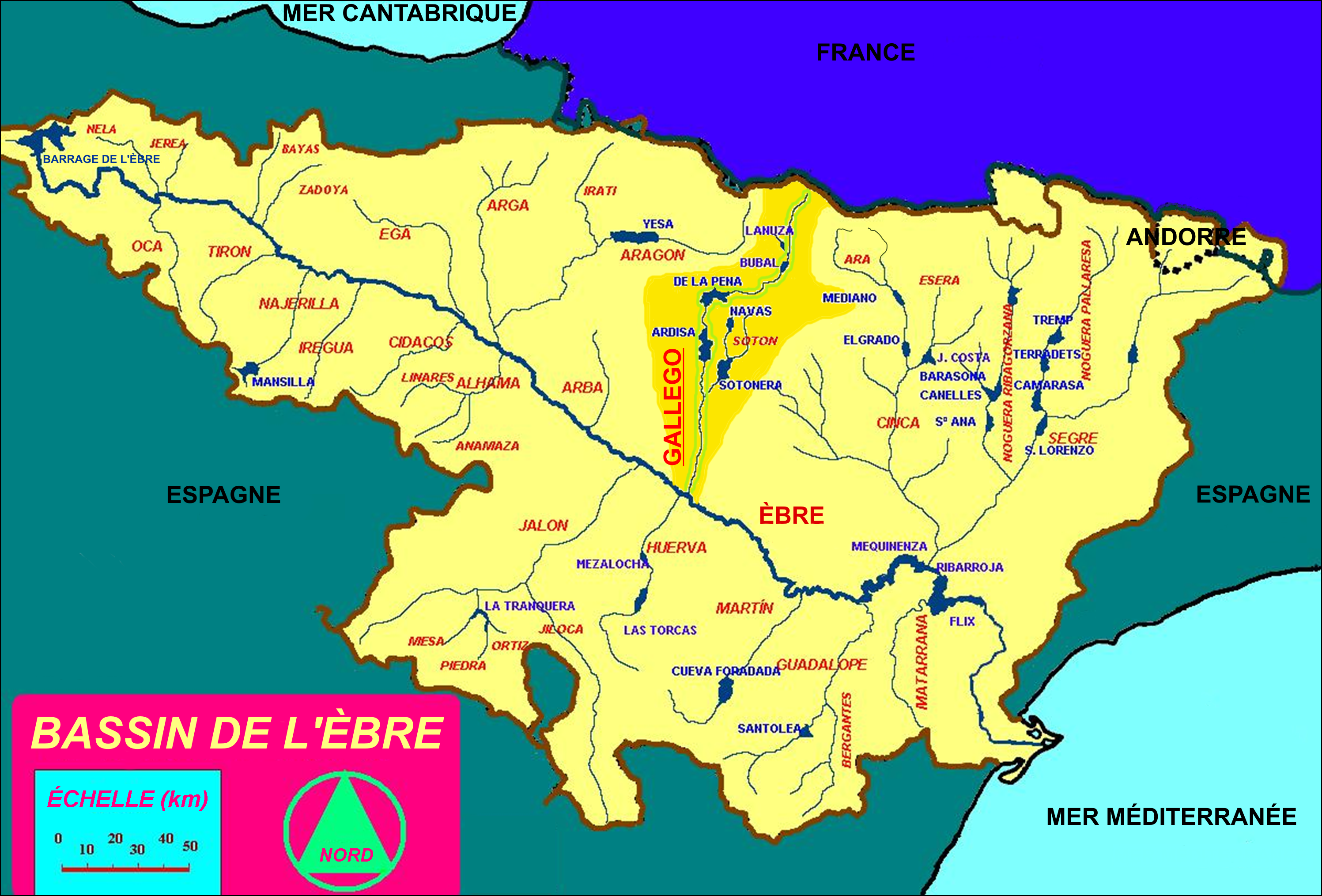 Watershed of the Gallego river (Spain)